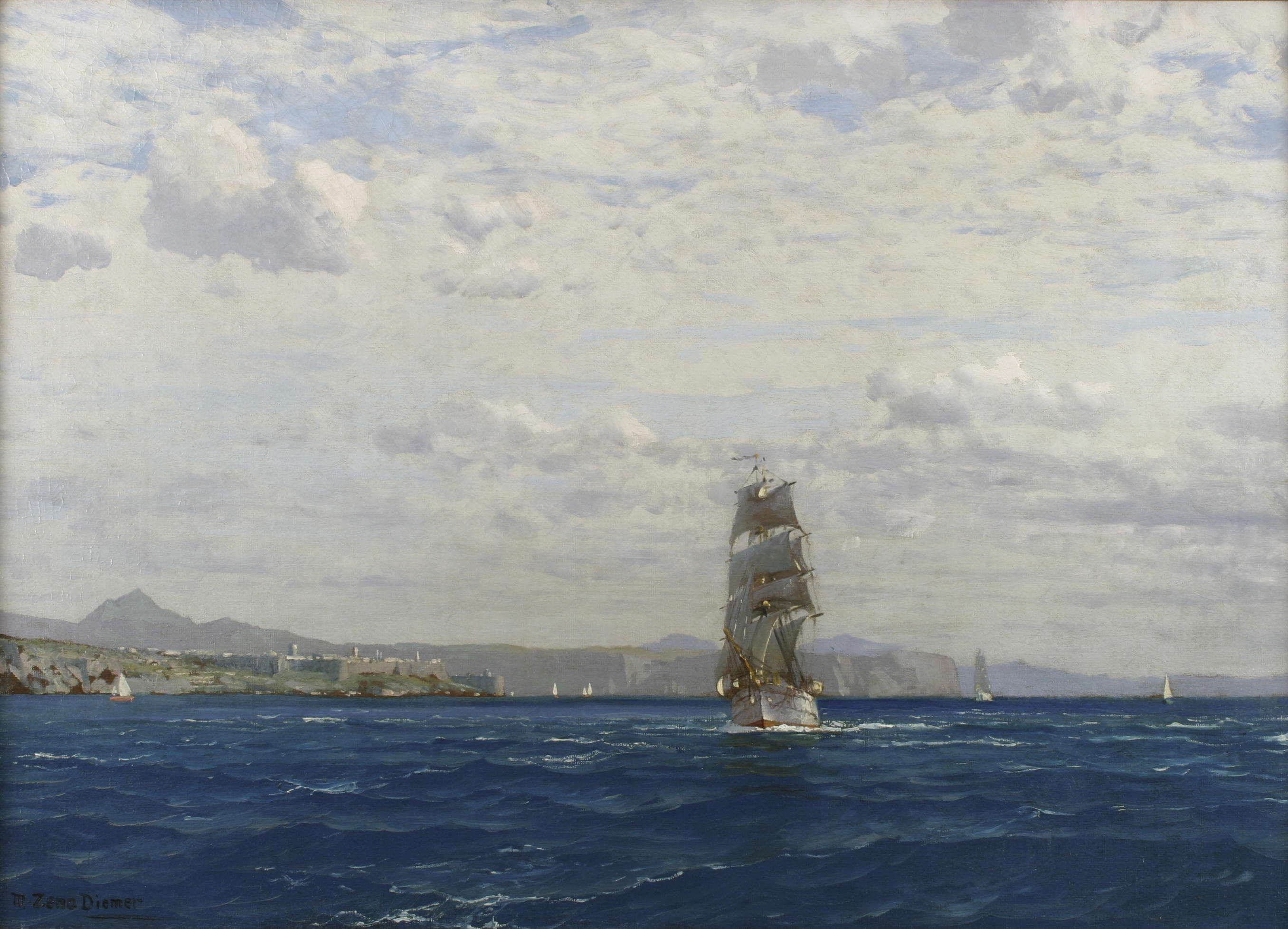 Sailing off the Kilitbahir Fortress in the Dardenelles, Turkey